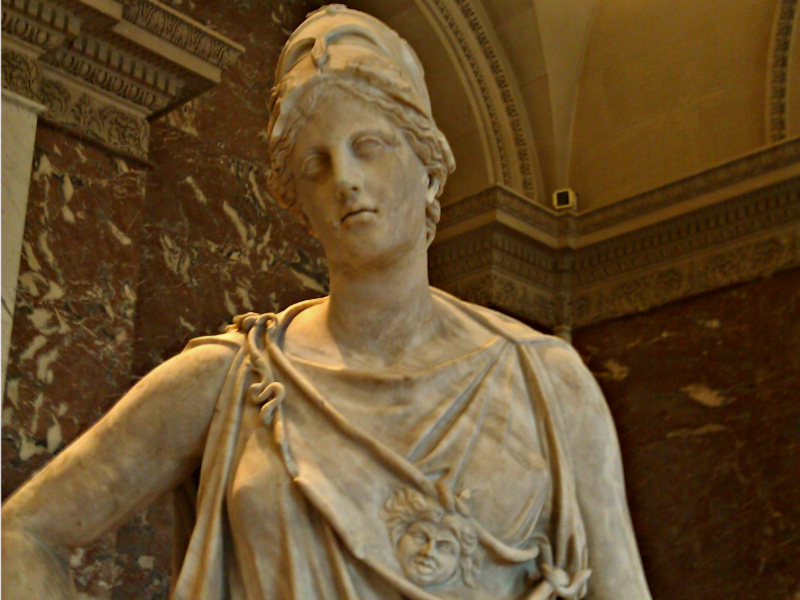 It is the representation of the maiden warrior Athena. We can see this sculpture at the Museum of Louvre.